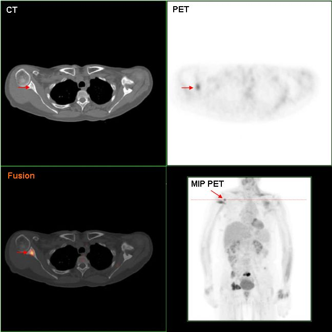 F-18 FDG PET/CT: Metastasis of a mamma carcinoma in the right scapula; image courtesy of "Südwestdeutsches PET-Zentrum Stuttgart am Diakonie-Klinikum"